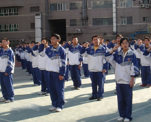 乌鲁木齐市第一中学 成人仪式